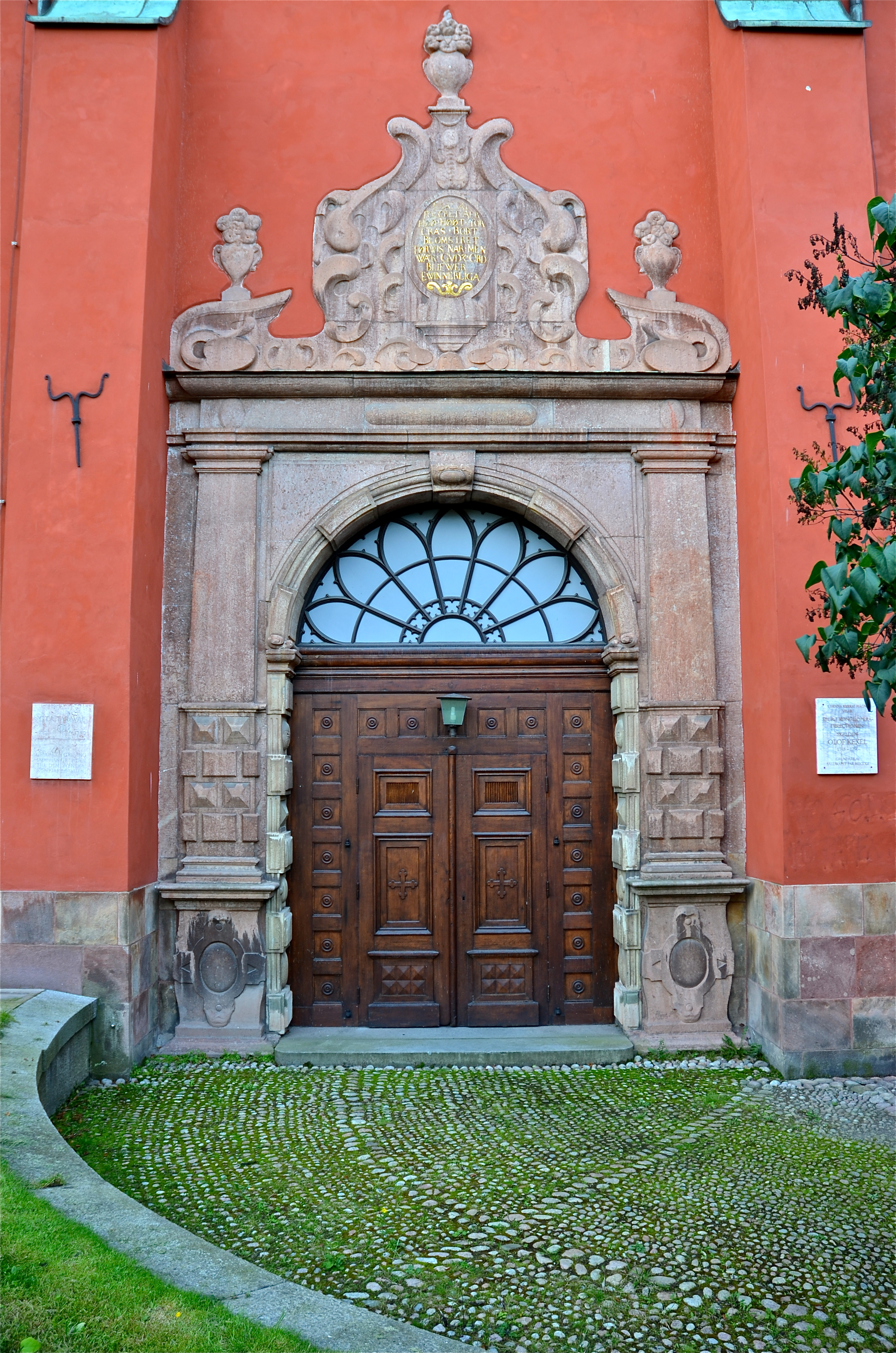 The Northern Portal of St. Jacobs Church, built in German-Dutch Renaissance style by the German sculptor Henrik Blume (Heinrich Blume) (dead 1648). This portal, and the church's two other portals, to the south and to the west, were built in 1643-1644.